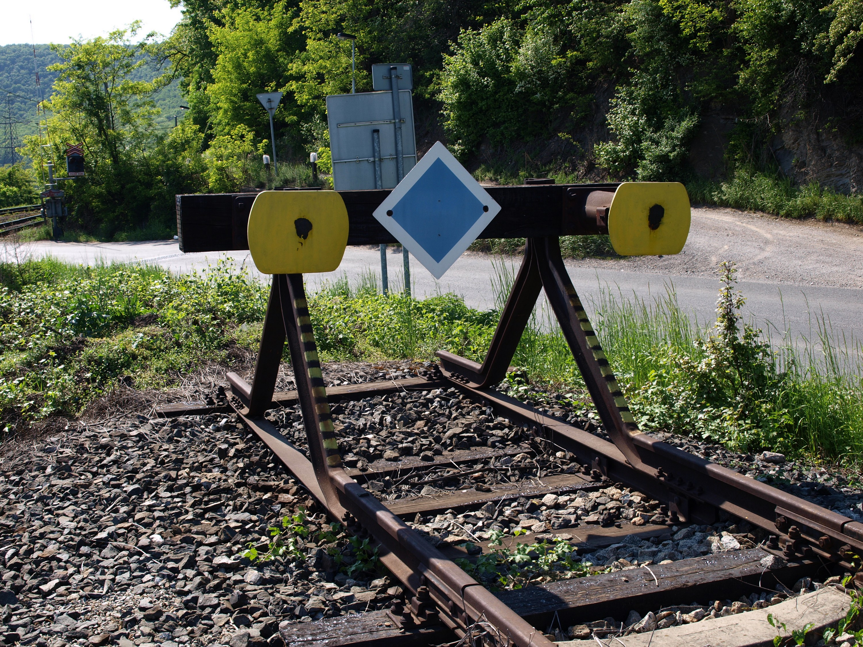 Buffer, Praha-Radotín train station